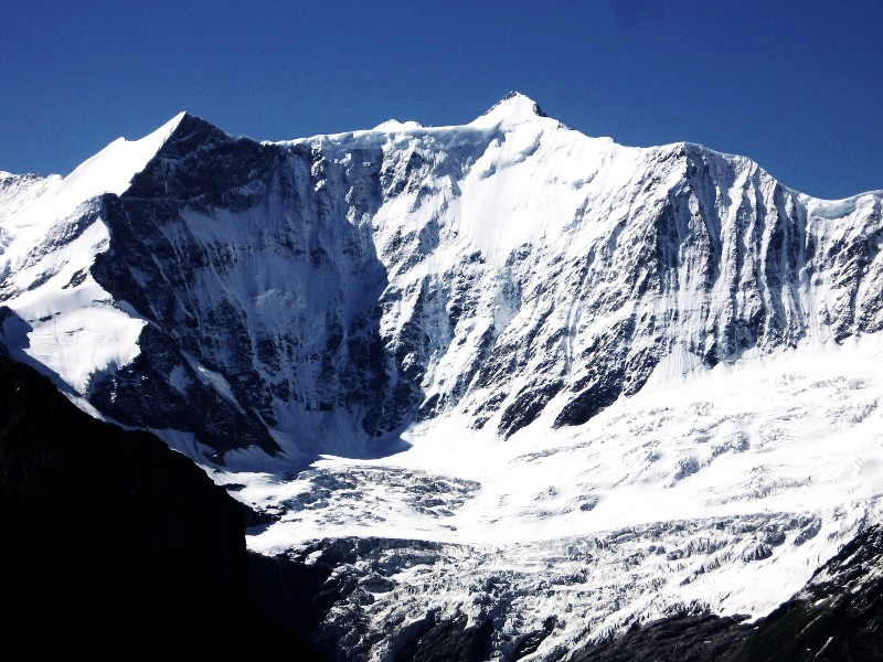 Fiescherhorn north face